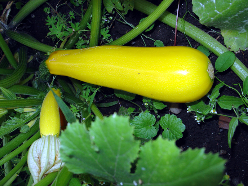 yellow zucchini žlutá cuketa Photo Czech republic August 2006 Author= Karelj Author= Karelj